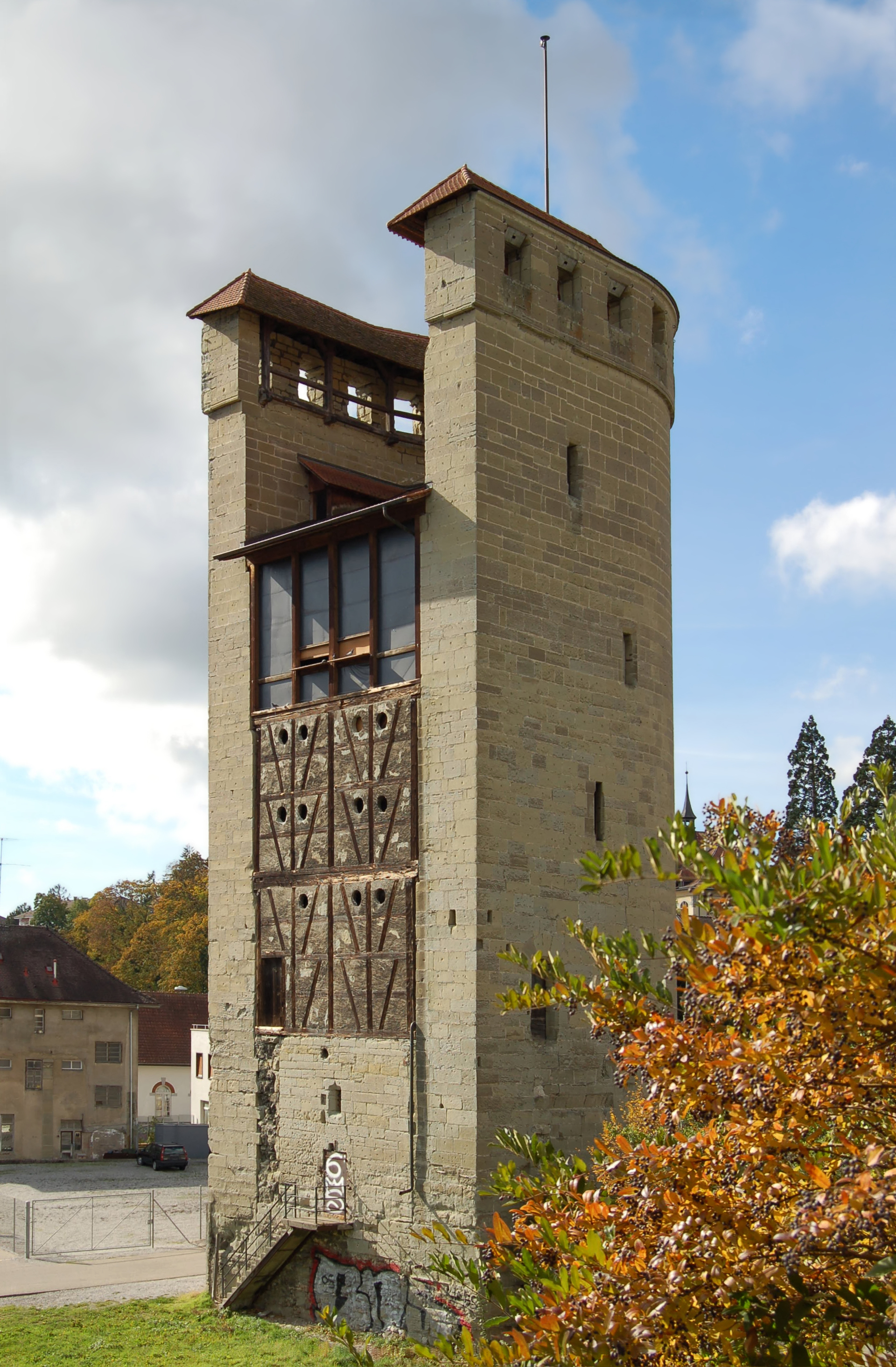 Fribourg, Switzerland